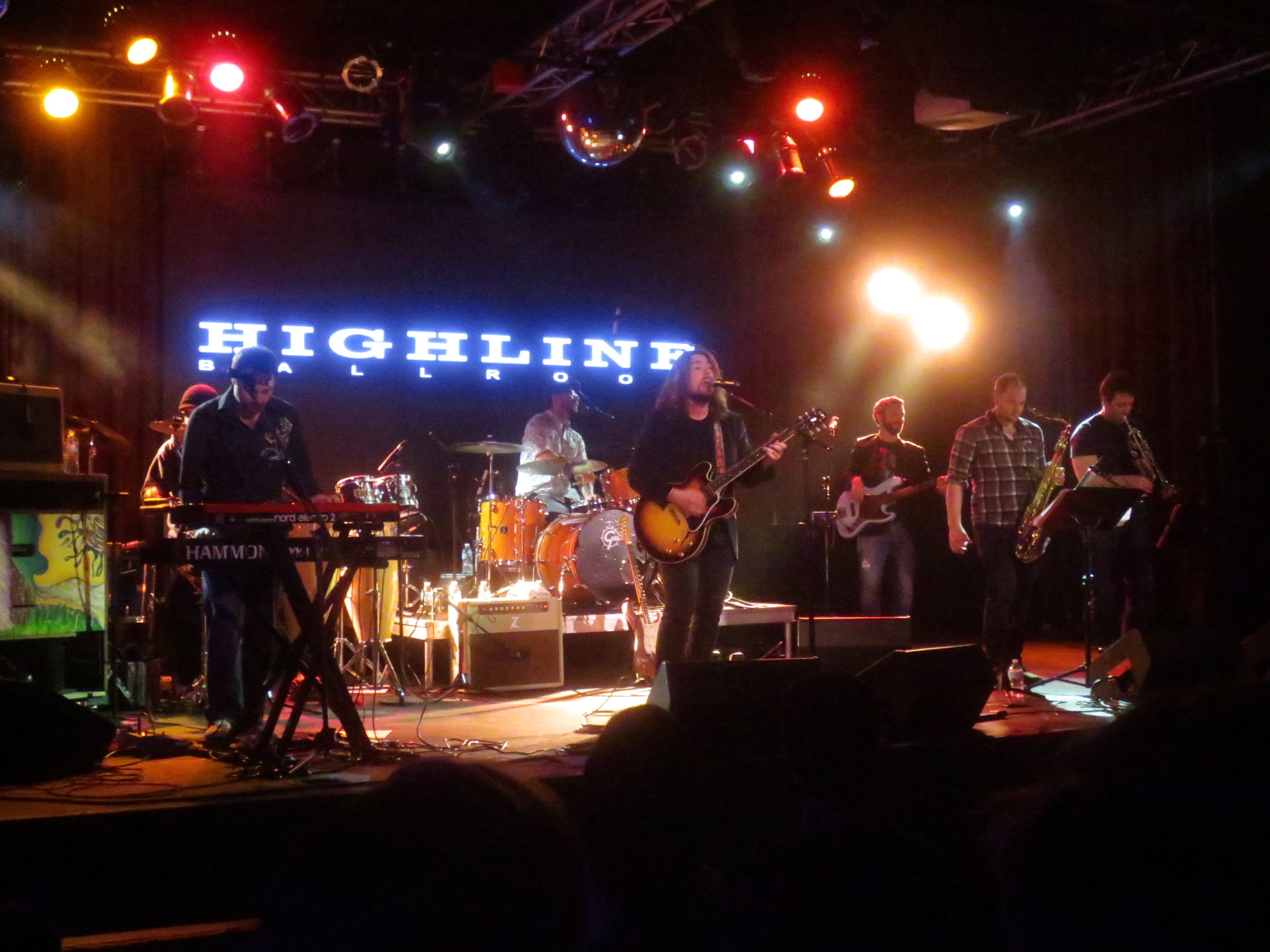 Yellow Dubmarine @ Highline Ballroom, New York, 01/30/2016